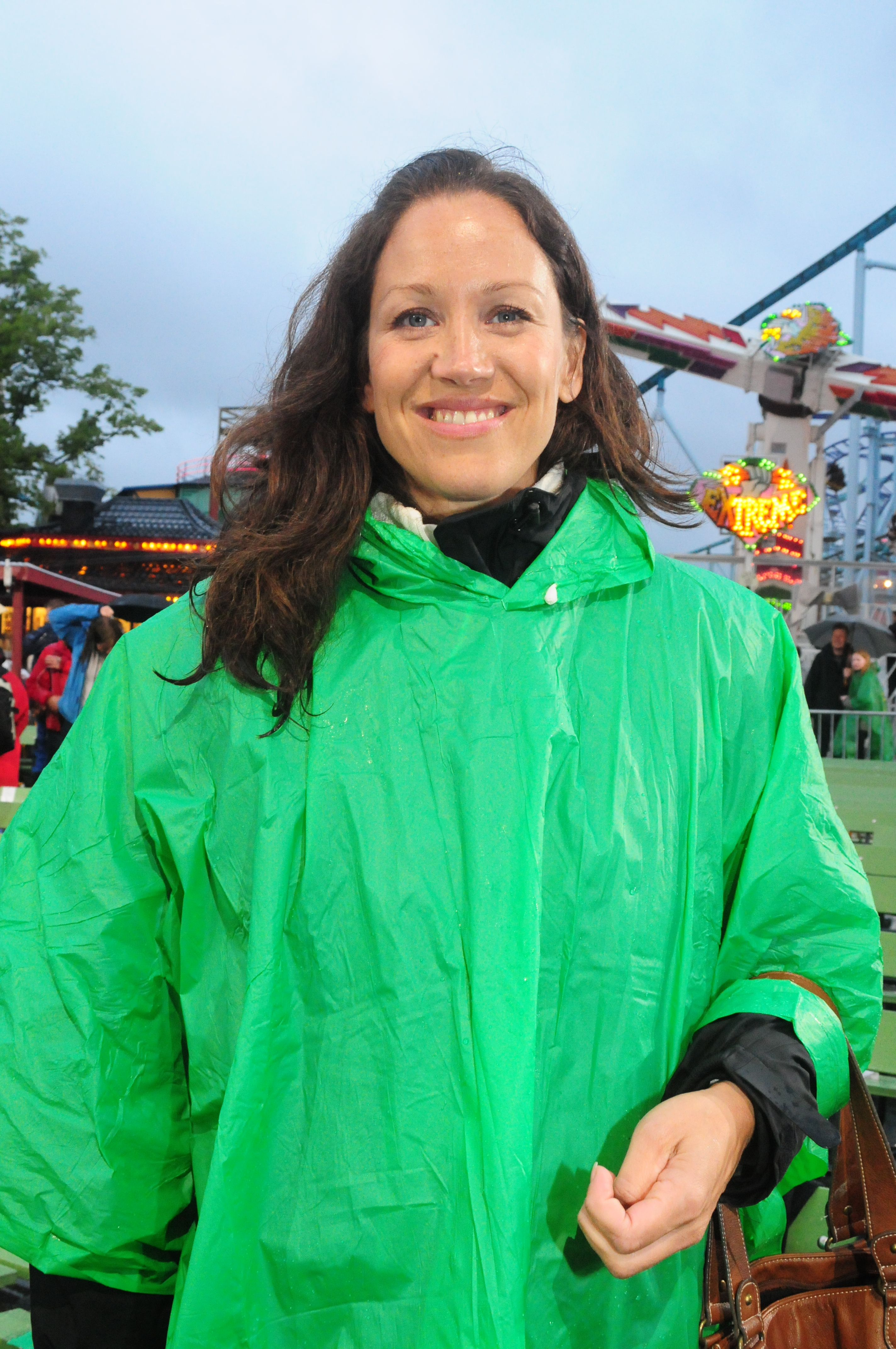 Renée Nyberg Visiting Sommarkrysset